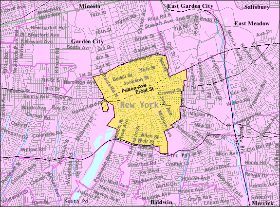 U.S. Census 2000 reference map for Hempstead (village), New York